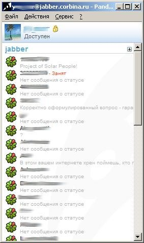 Pandion screenshot